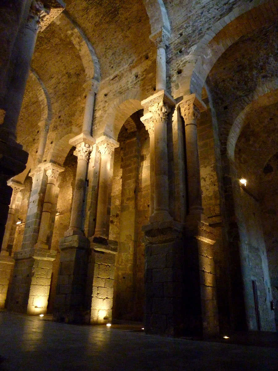 San Pere de Rodes, romanesque monastery in Girona (Spain).